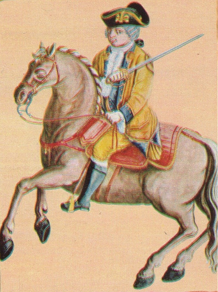 Auxiliary troop officer. Brazil 18th century